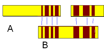 Treering sequence in dendrochronology. Sample from wood is taken with hollow drill. Samples from woods those have partly different age, can combine together to make treering sequence, that can be presented like thicker tree or longer stick.